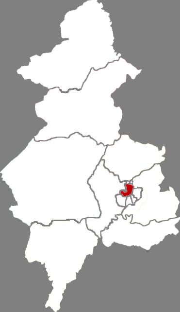 Location of Huanggu district in Shenyang City, China